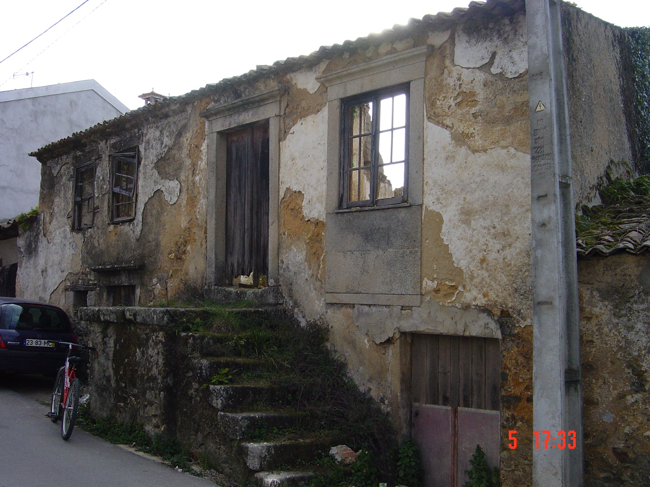 One of the houses (in lamentable state of degradation) of the Captain-Major of Vouga, José Pereira Simões, located along the access road to Carreiro do Vidais and Quinta do Laranjal